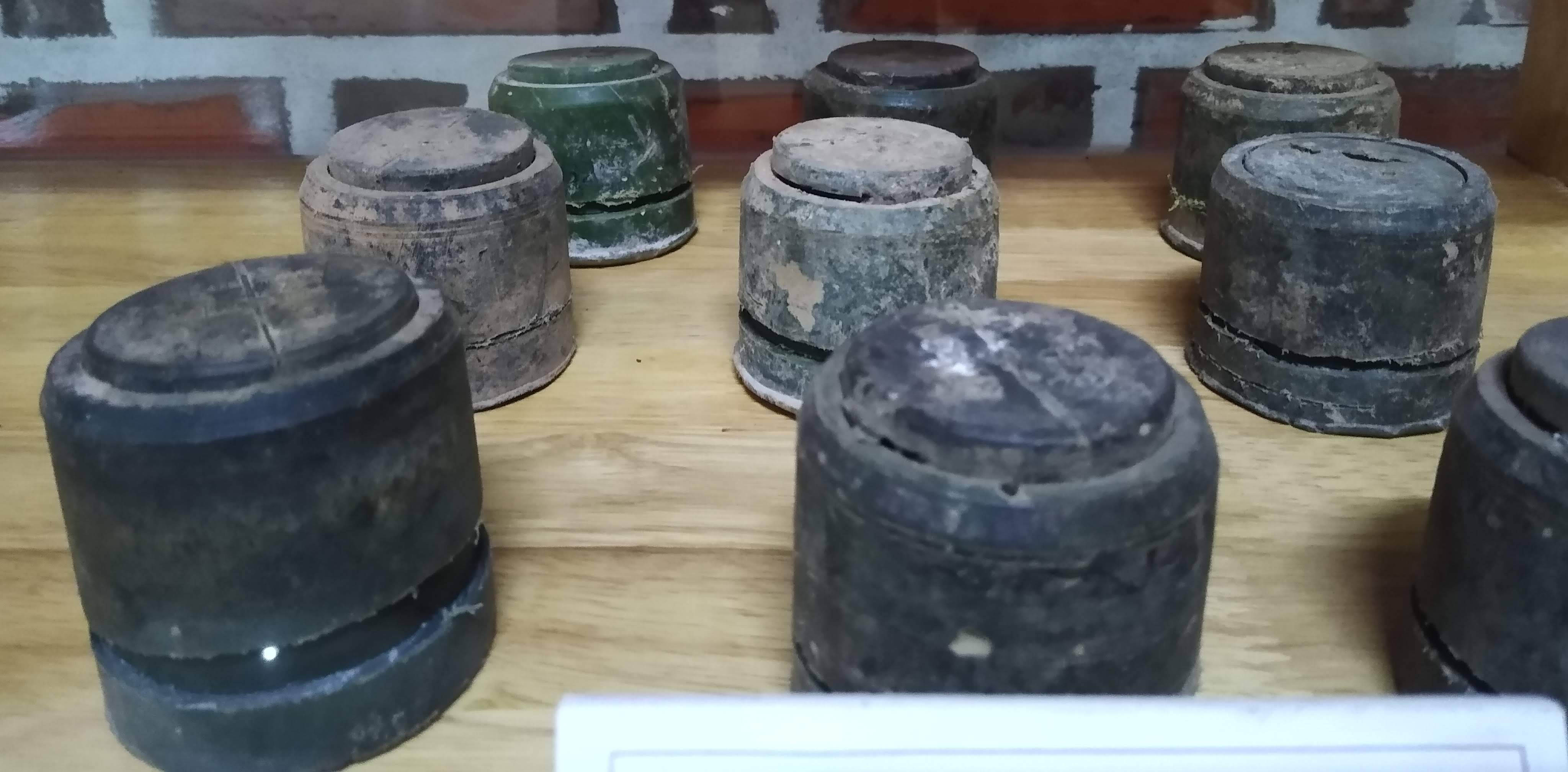 MD 82 B landmines on display at APOPO Visitor's Center, Siem Reap, Cambodia. From the label: AP Landmine ( FFE ) Name: MD 82 B From: Vietnam Explosive: 28 g